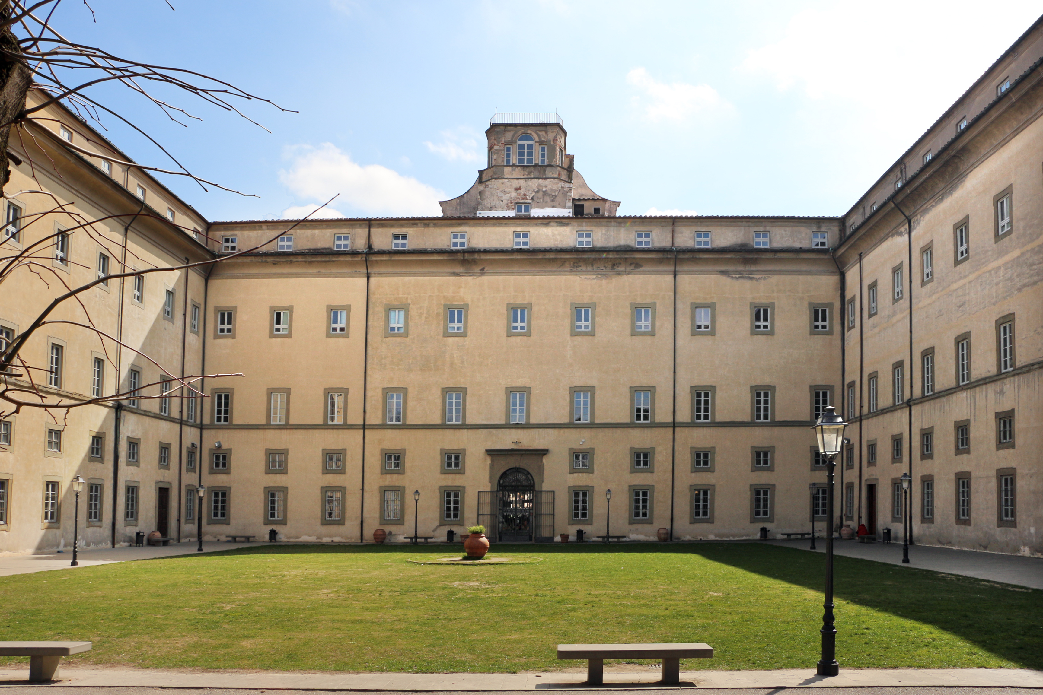 Collegio Cicognini